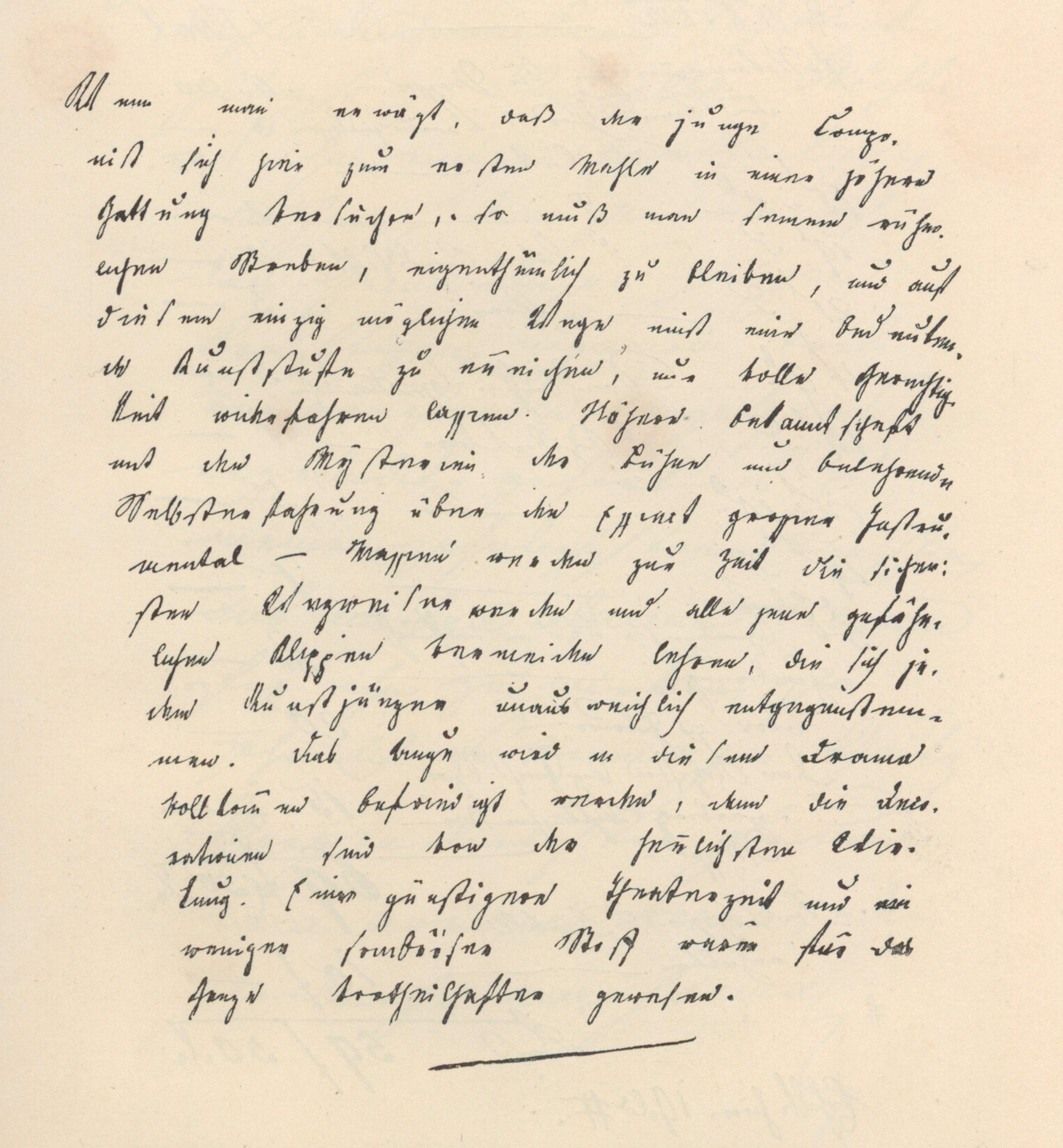 Austrian poet and librettist Johann Mayrhofer's 1820 autograph review of Franz Schubert's opera Die Zauberharfe (The Magic Harp, 1820) (D 644).